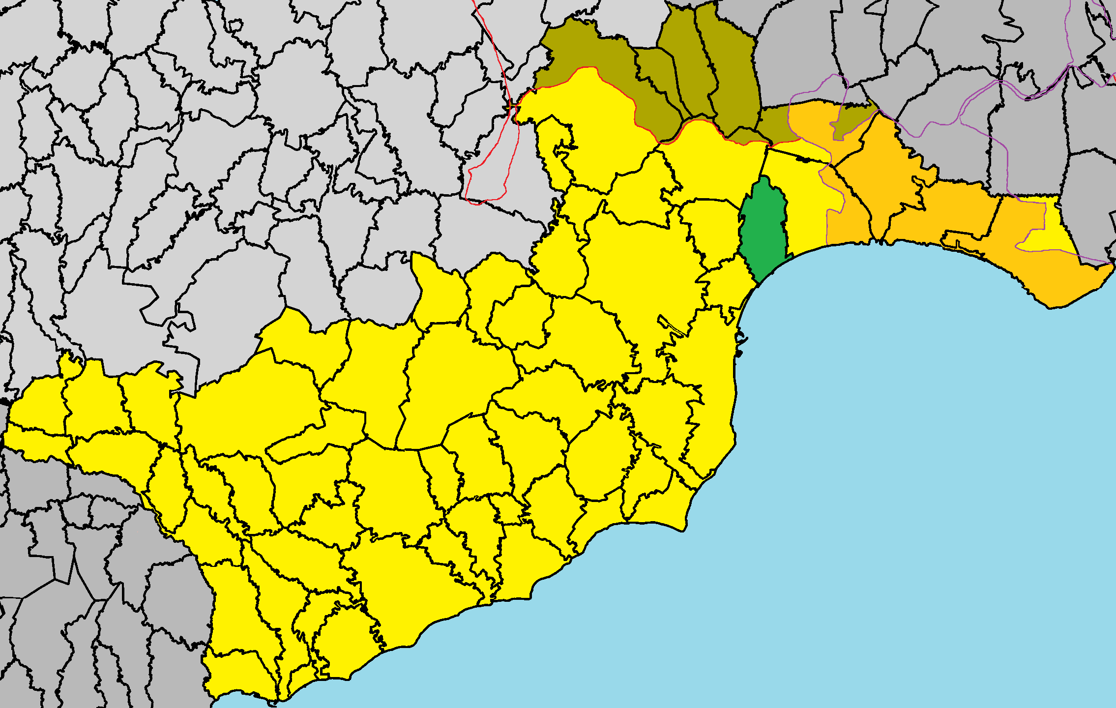 Oroklini in Larnaca District.